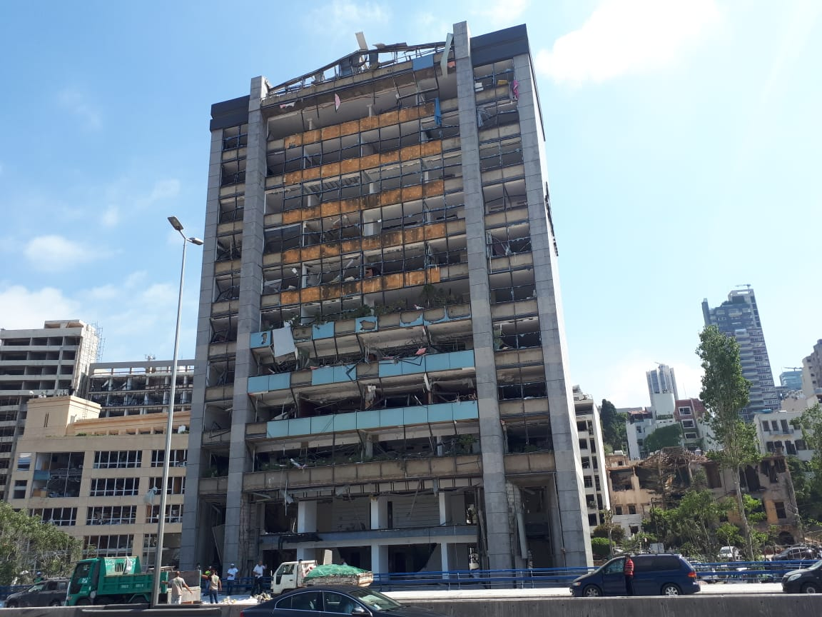 Aftermath of the 2020 Beirut explosions